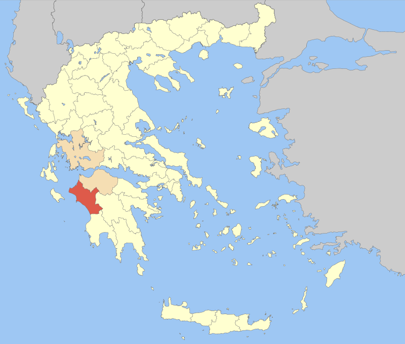 Locator map of Ilia (Elis) prefecture (Νομός Ηλείας) in Greece